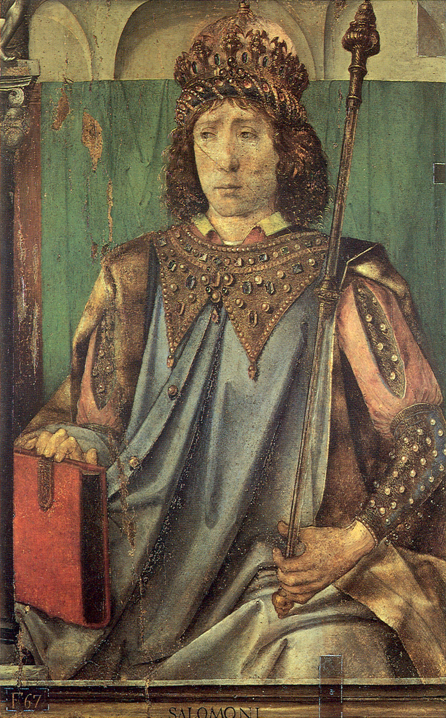 Solomon Justus of Ghent, about 1474 Panel, 95 x 50 cm Urbino, Galleria Nazionale delle Marche